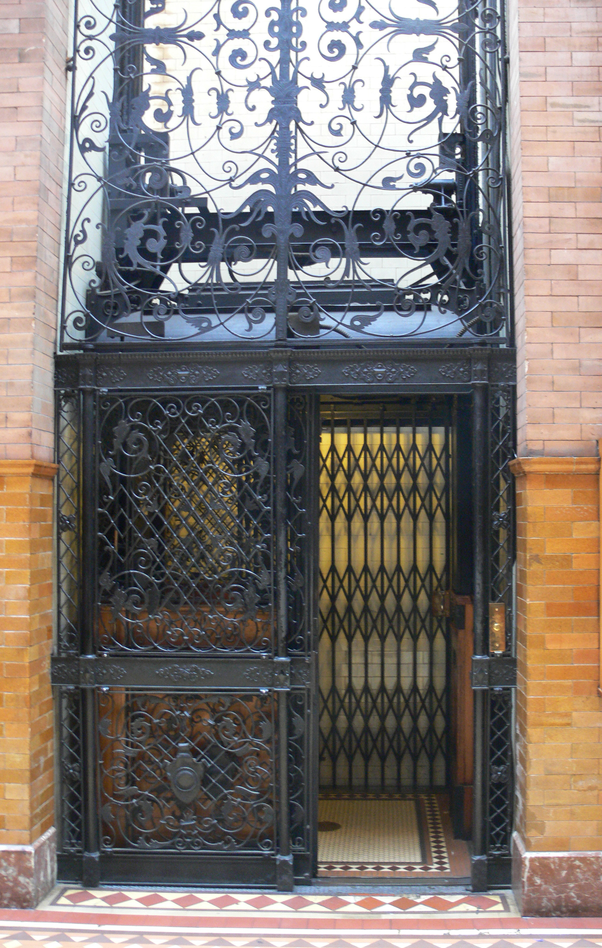 Elevator, Bradbury Building, 304 S. Broadway, Downtown Los Angeles.